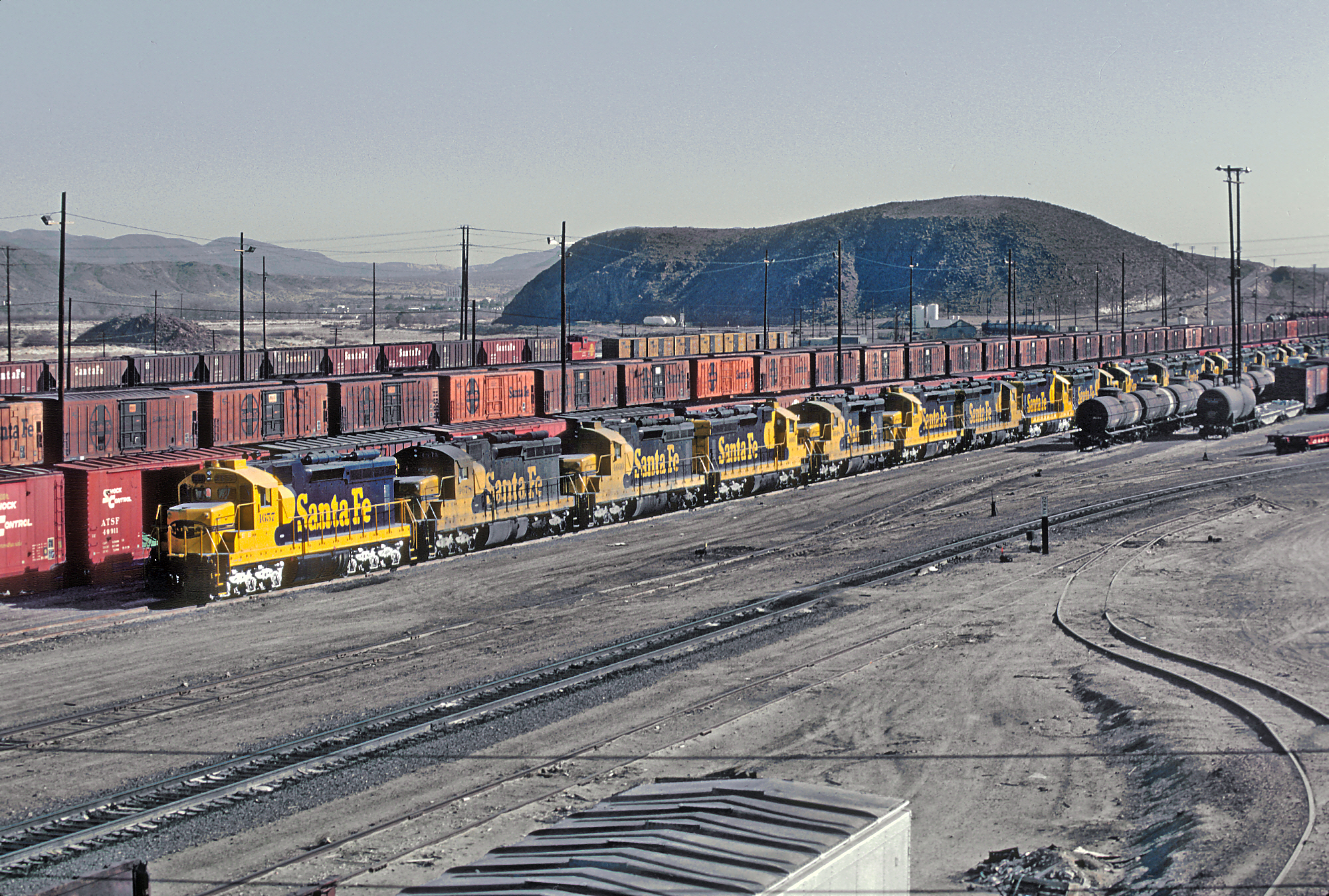 In storage during a recession. A Roger Puta Photograph Beau Minnick on Facebook commented, "Yes they are SD26s in the early 70s Santa Fe decided to rebuild their SD24 to bring them up to a more modern standard. This was a capital rebuilding program done at the San Bernardino shops from 73 to 78. The SD24 was never EMDs most reliable product, with Santa Fe having 80 of them rebuild made financial scene for the railroad. The rebuild included central air filtering upgraded electronics and new power assemblies which increased horsepower. They where all off the property by 1986. Some went to EMD as credit for GP50s and the rest went to the Gilford Railroad. None of them survive today."